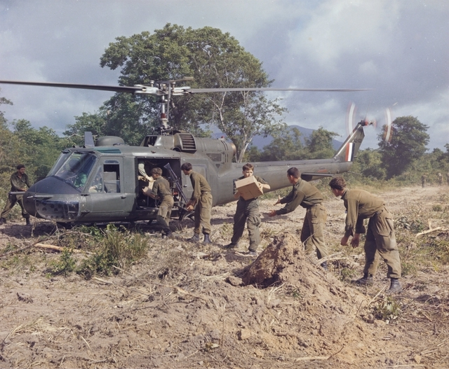 Rations and supplies are unloaded from a UH-B1 Iroquois helicopter, Serial No. A21021, of No. 9 Squadron RAAF, by troops of 7th Battalion, The Royal Australian Regiment (7RAR), near the village of Long Dien during Operation Ulmarra. AWM image EKN/67/0136/VN